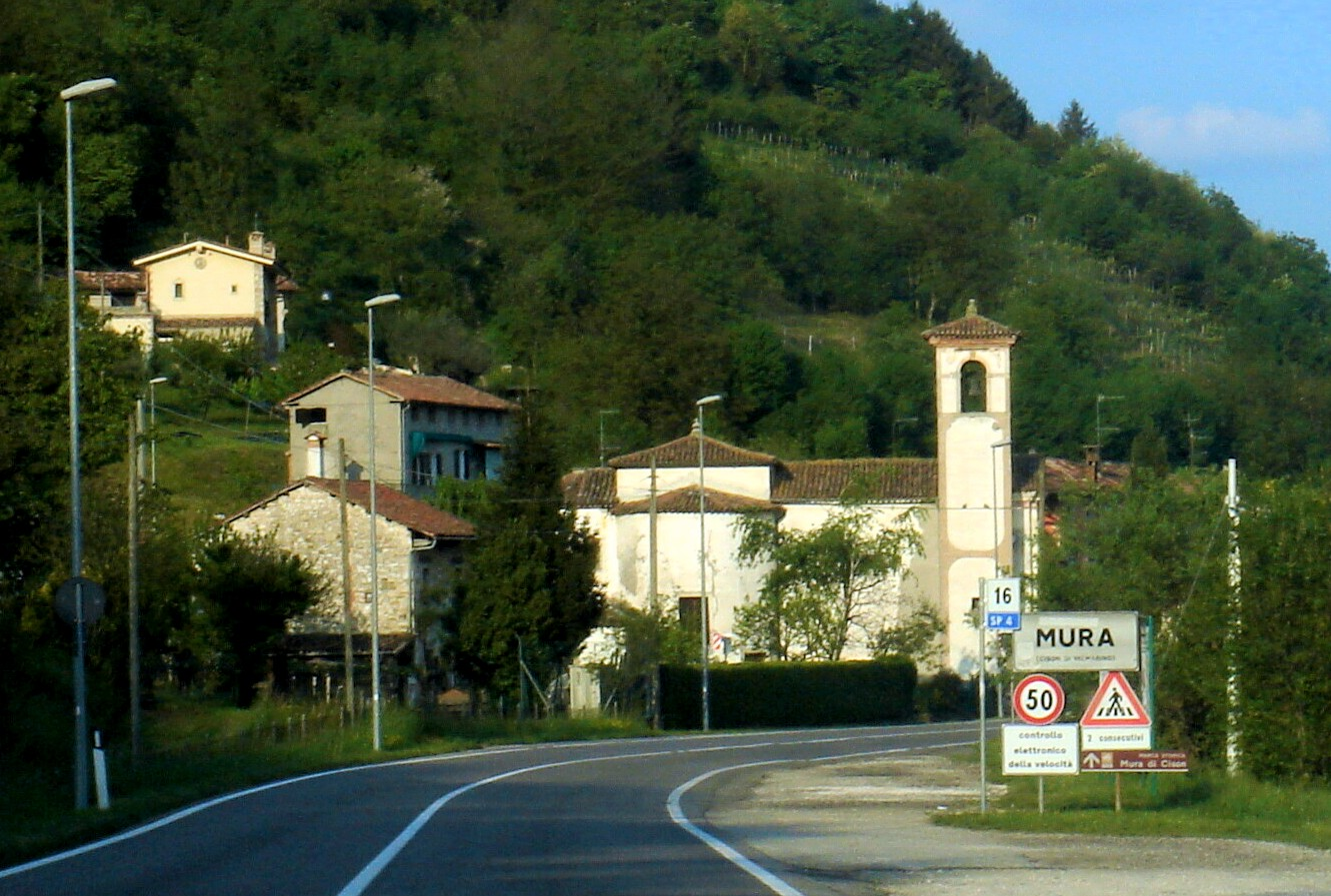 Mura (Cison di Valmarino), Treviso, Italy